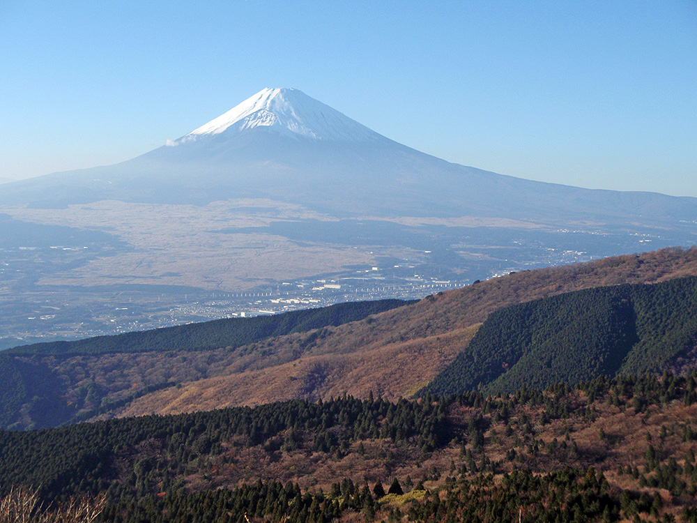 Mount Fuji as seen from the southeast. Shot from Ashinoko Skyline (road name) in Shizuoka Prefecture, Japan.